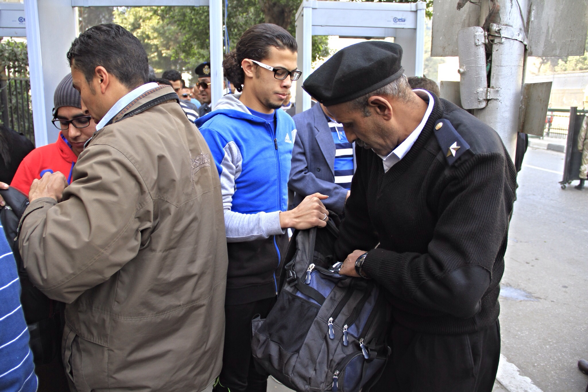 Original description: "Pro-government crowds gather in Cairo's Tahrir Square, (Hamada Elrasam/VOA)."